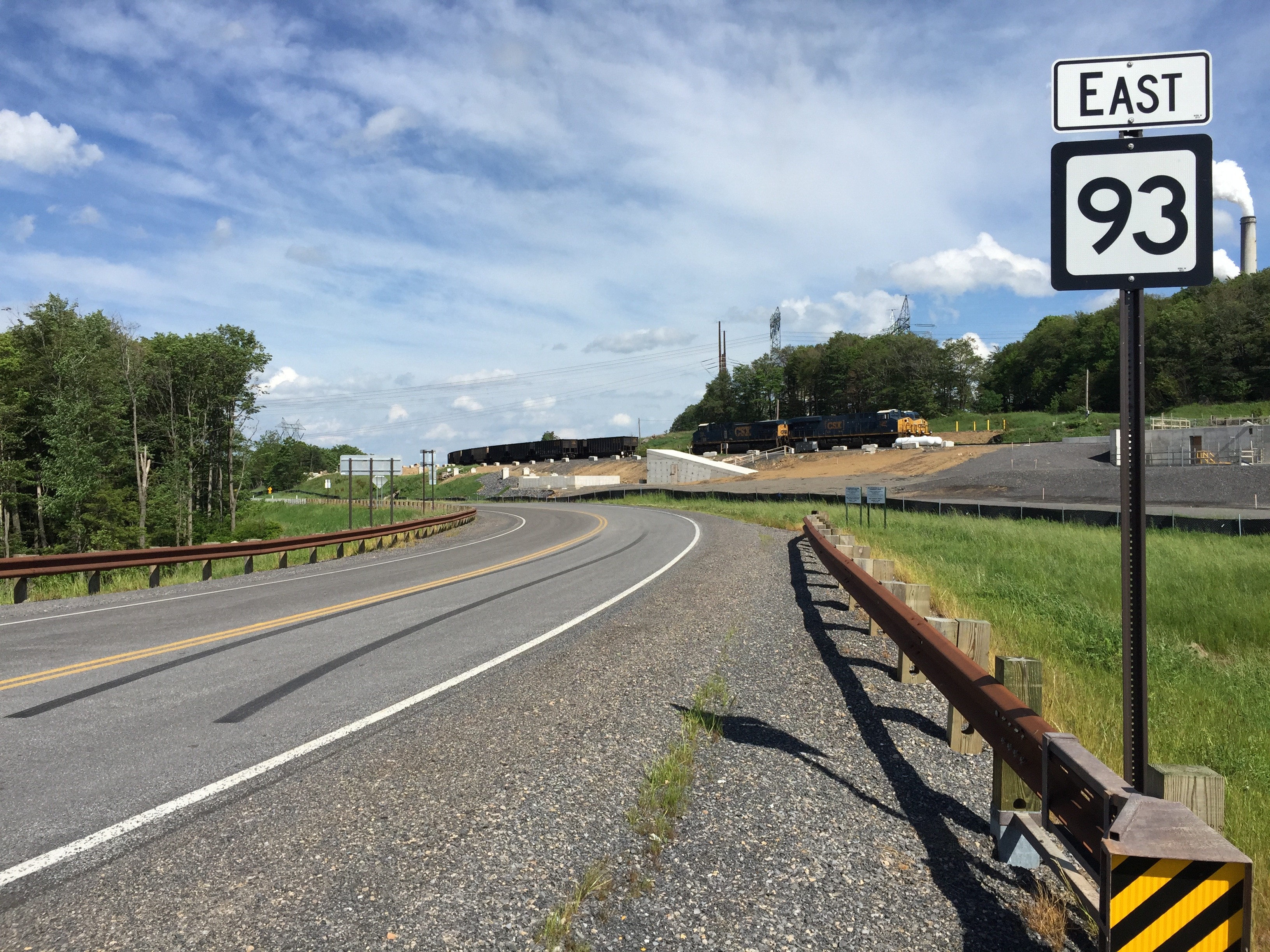 View east along West Virginia State Route 93 (Power Station Highway) just east of U.S. Route 48 (Corridor H) in western Grant County, West Virginia